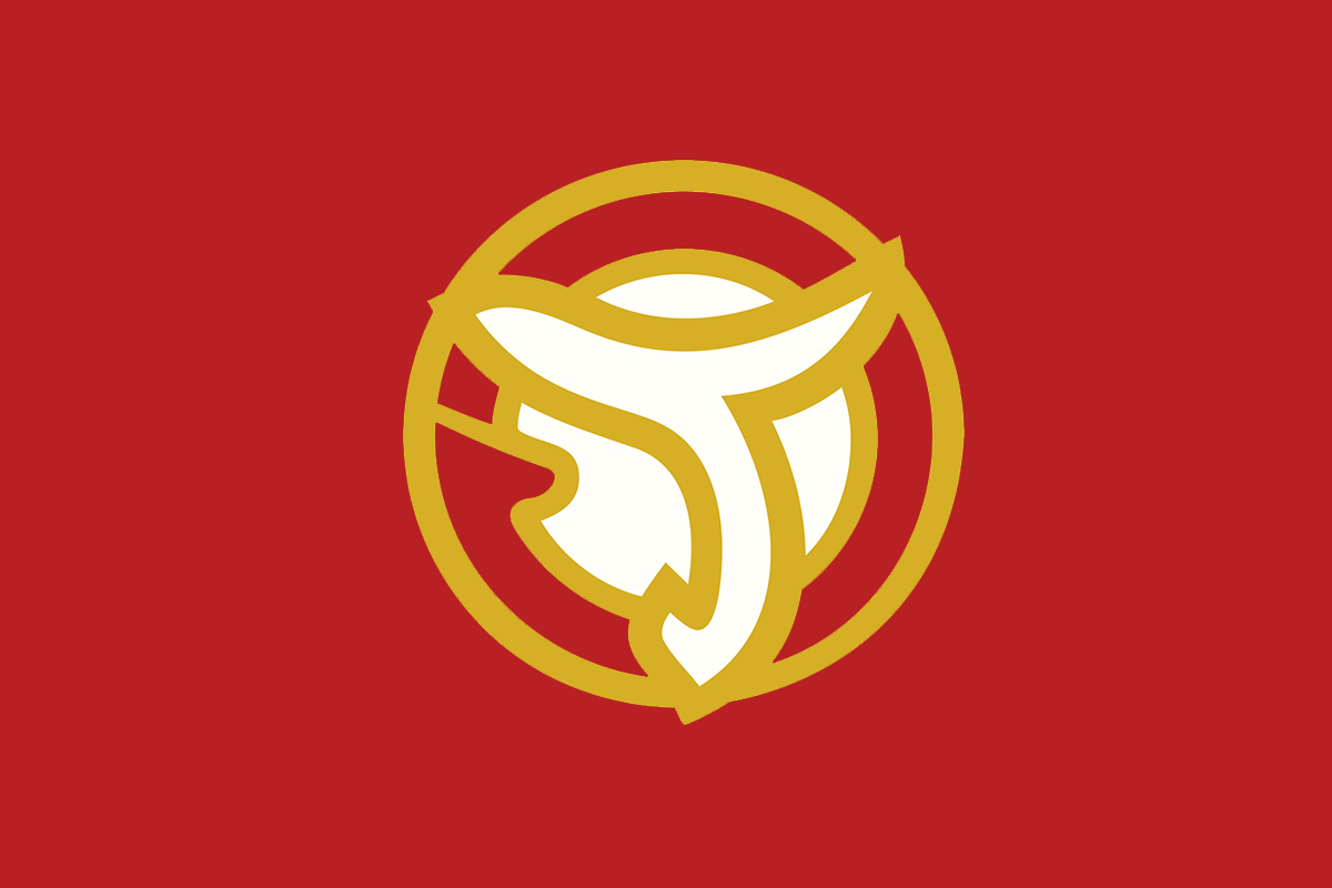 Royal Cypher of Princess Ubolratana Rajakanya, with Red flag (the Princess’ birthday colour), the middle is the Royal Cypher, but not topped by the simplified crown. Because of her relinquishing her royal titles, she had previously held the royal title Her Royal Highness. She still retains the style of Tunkramom Ying, which alludes to the status of Chao Fa, but she does not officially hold the Chao Fa title at present.